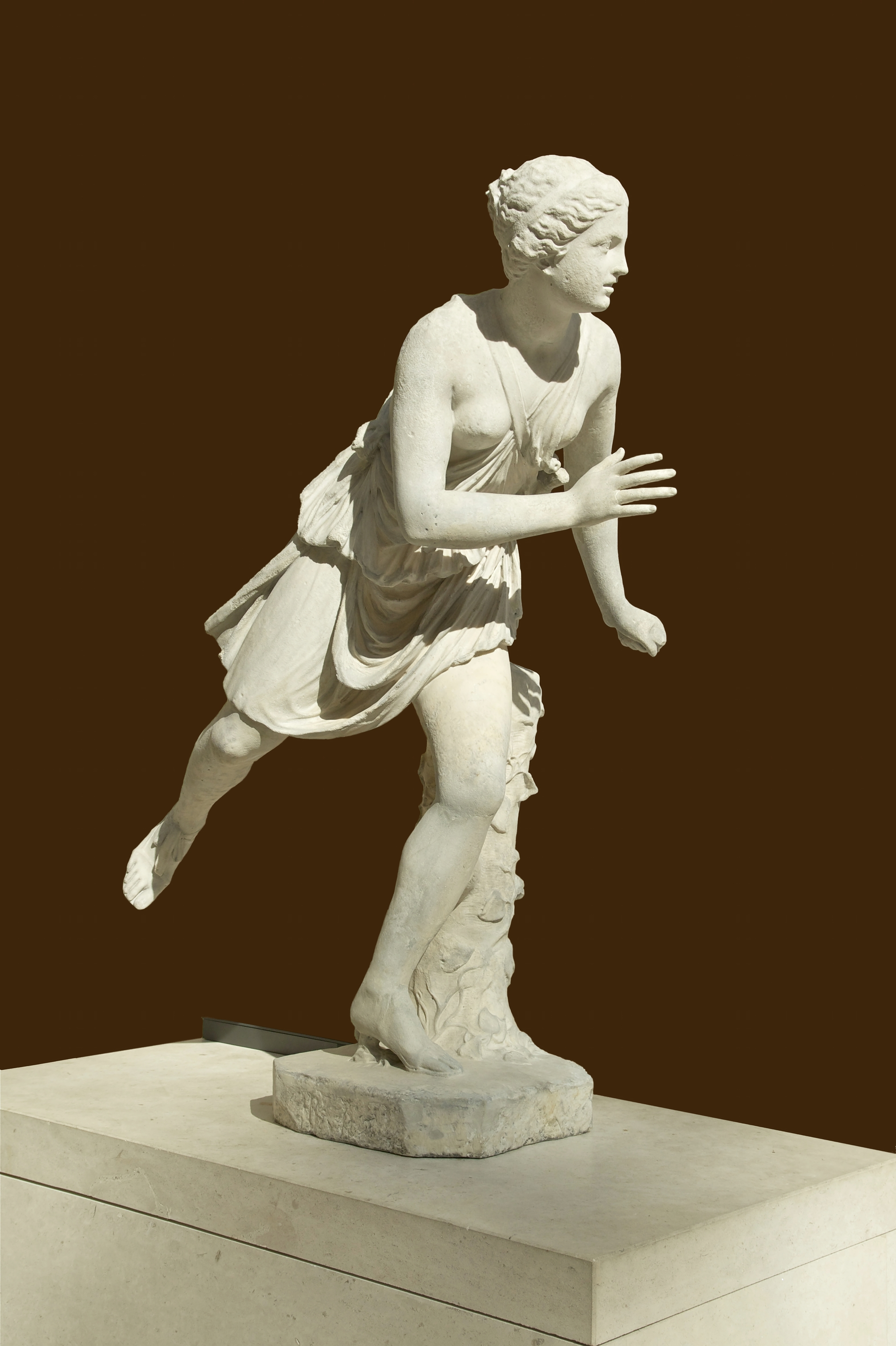 Atalanta. Copy of Ma 52, a Roman copy after a Hellenistic original